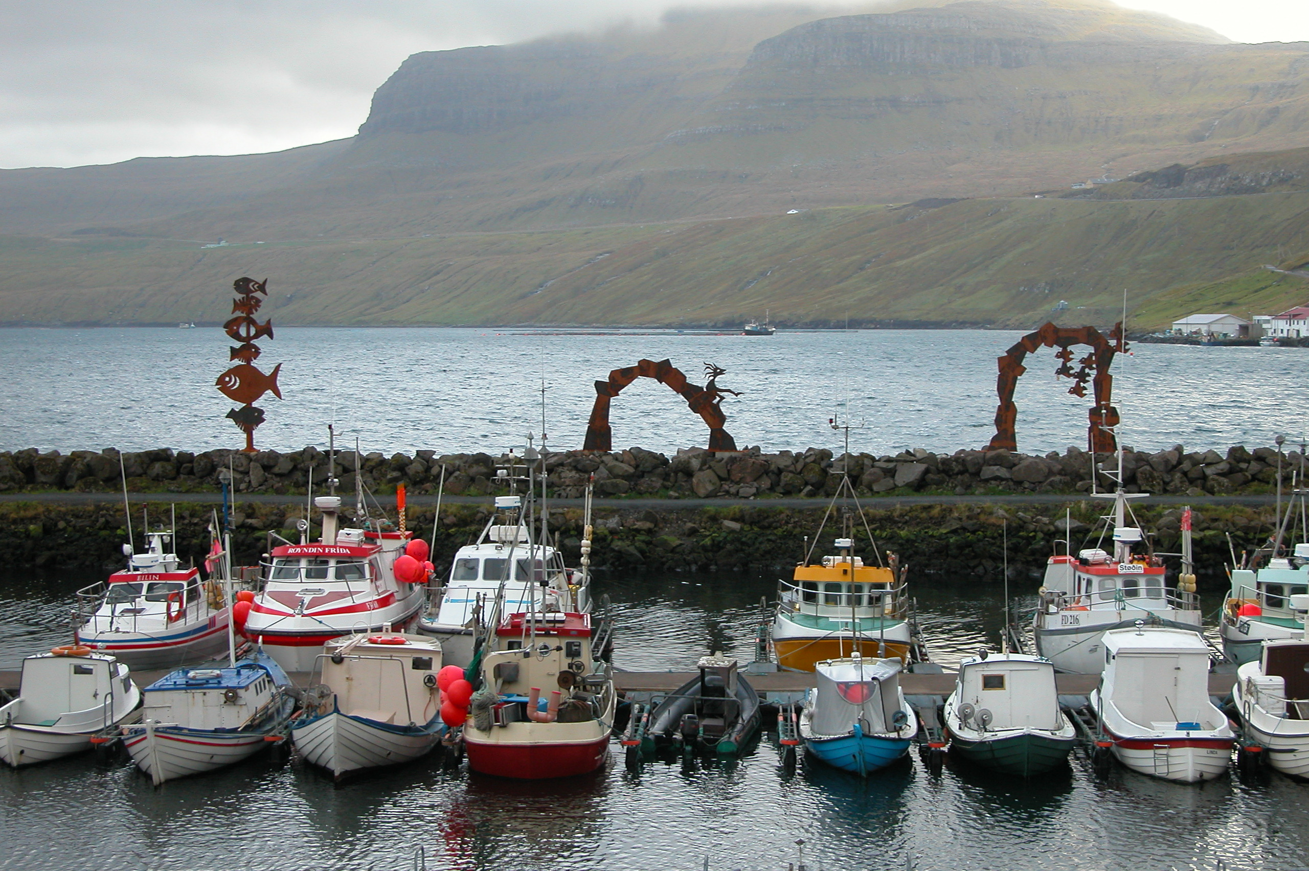 Fuglafjørður, Faroe Islands: Boat harbour with seven typical Faroe boats in the foreground. Today, these fishing boats have a motor, but other types are still rowing boats and used for races.